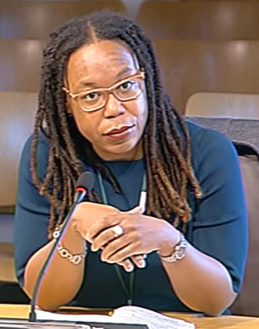 Equal Opportunities Committee. Agenda: 1. Removing Barriers: Race, Ethnicity and Employment: The Committee will take evidence from— Dr Akwugo Emejulu, Senior Lecturer, University of Edinburgh; Dr Gina Netto, Associate Professor/Reader, Heriot Watt University; Olawale Olabamiji, Solicitor, Ethnic Minorities Law Centre; Chris Oswald, Head of Policy and Communications, Equality and Human Rights Commission. We do not facilitate discussions on our YouTube page but encourage you to share and comment on our videos on your own channels. If you would like to join in our conversations please follow @scotparl on Twitter or like us on Facebook